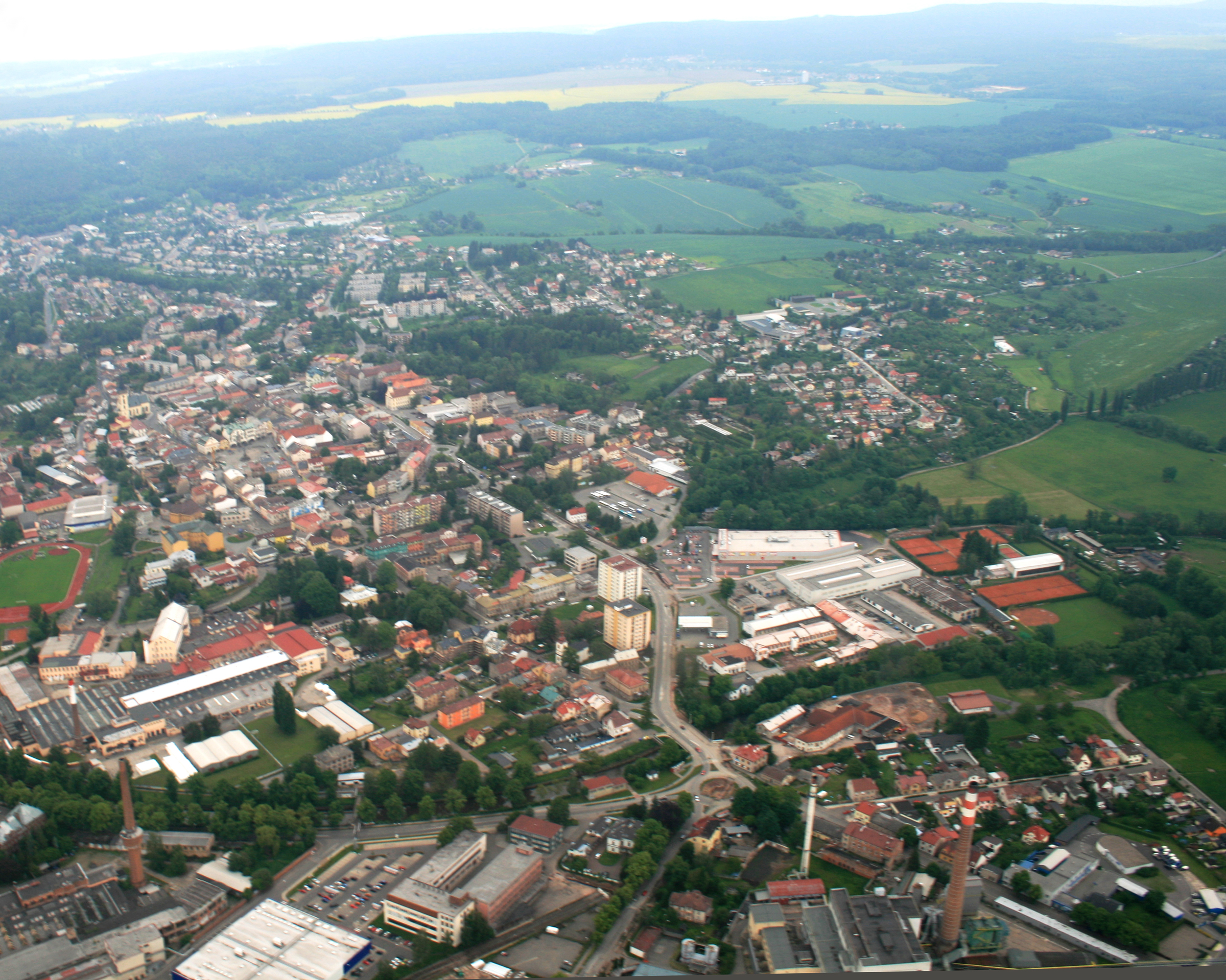 Town Dvůr Králové nad Labem from air, eastern Bohemia, Czech Republic